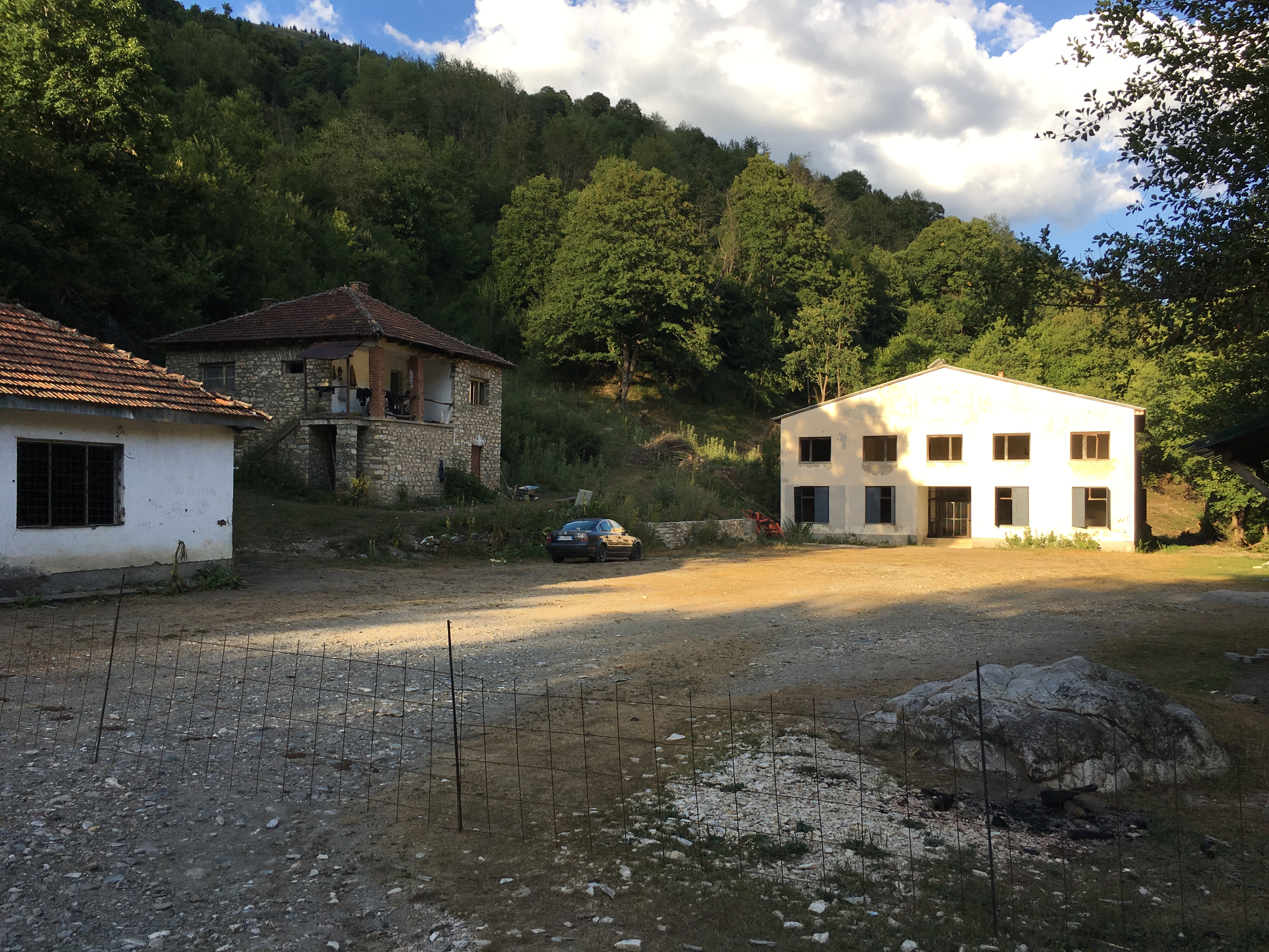 Buildings in the village of Ribnica